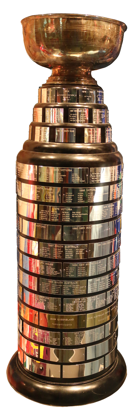 The Goodall Cup